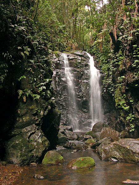 Box Log Falls, Lamington National Park, Queensland, Australia.